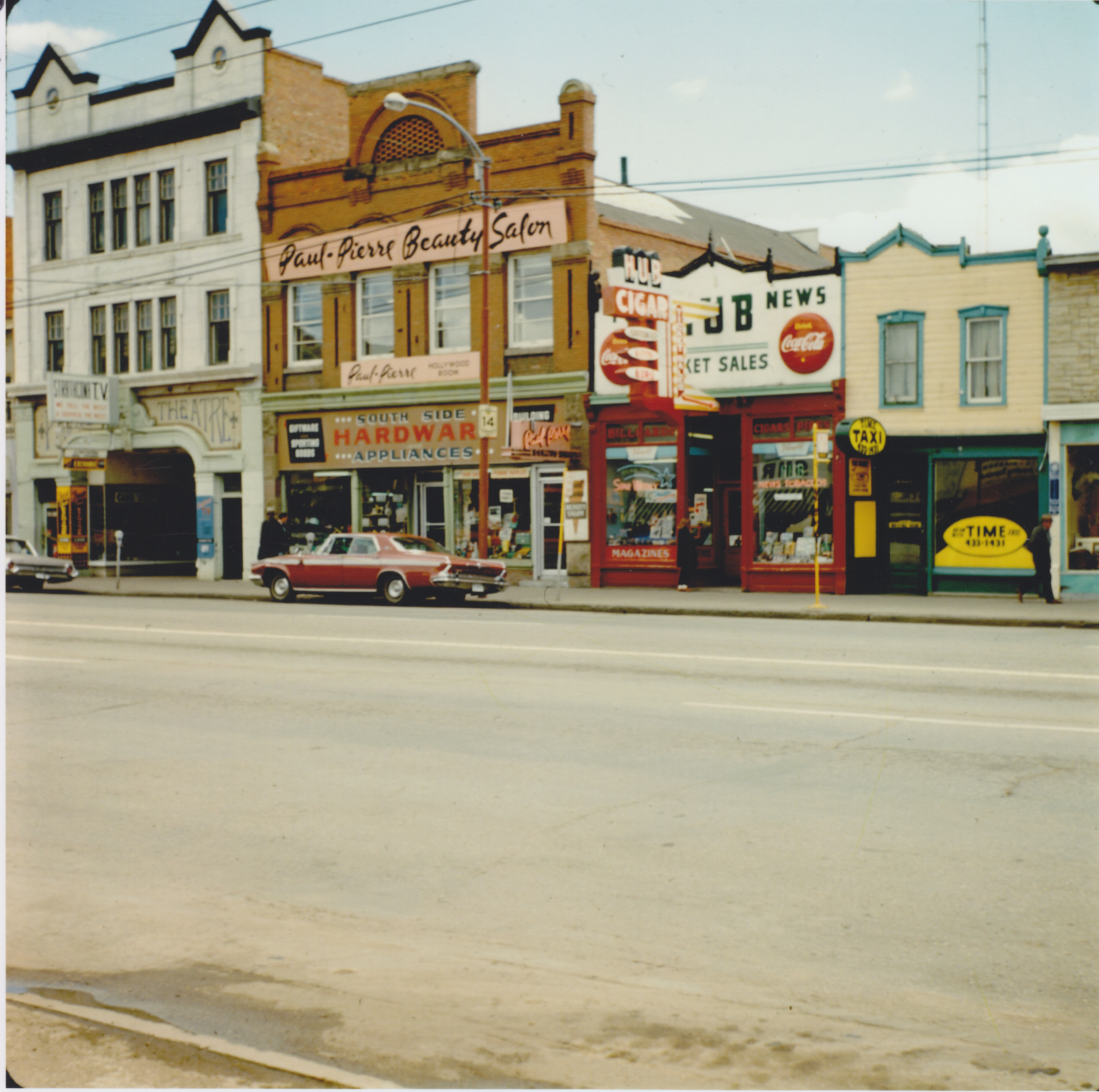 An exterior shot of the Princess Theatre in Edmonton, Alberta taken in June 1966. The photo can be found in the Provincial Archives of Alberta. Its object number is A6028. I have obtained a license from the archives to publish this image on Wikipedia.